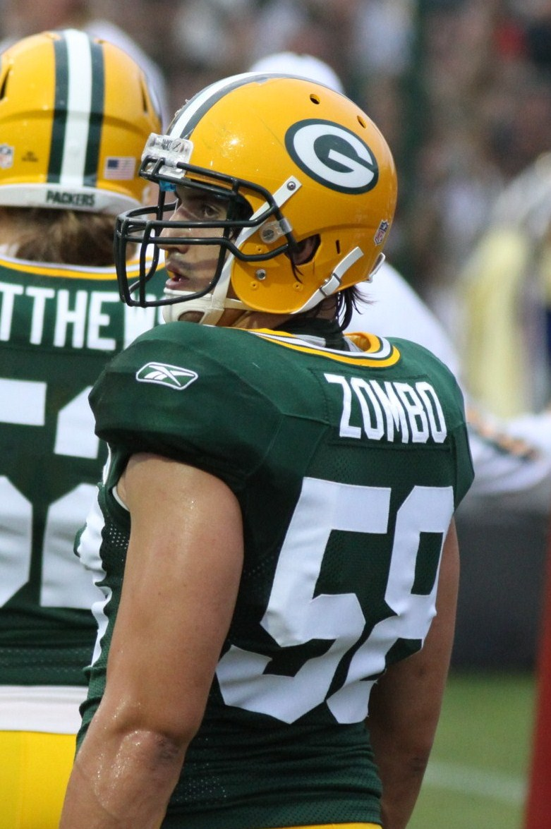 Green Bay Packer linebacker Frank Zombo during practice, August 5, 2011, Green Bay Wisconsin. Photo by Gabriel Cervantes